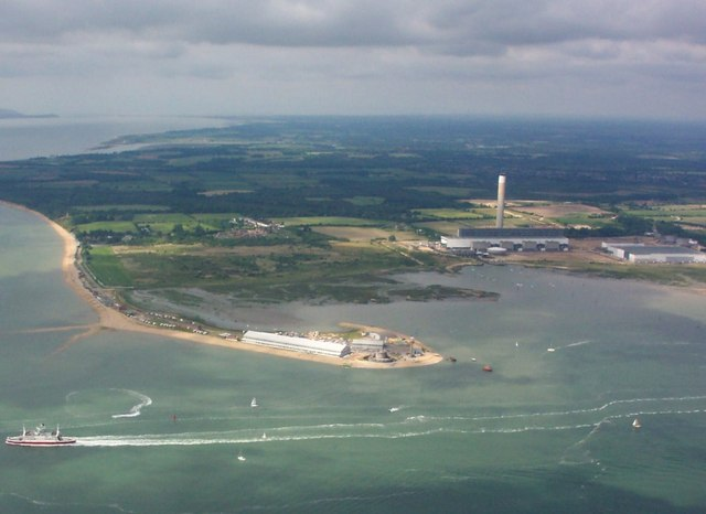 Aerial View of Calshot Spit